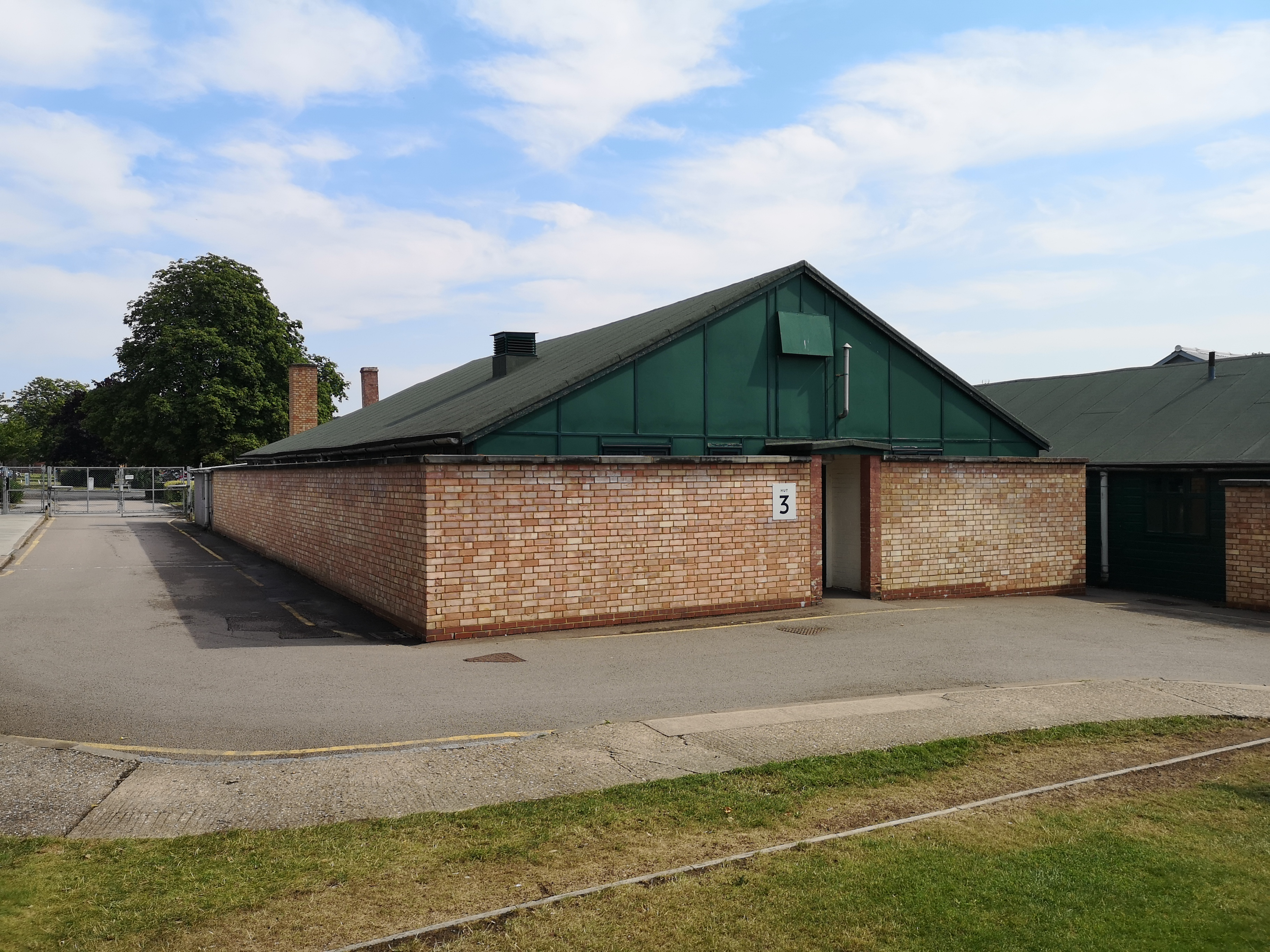 Hut 3 at Bletchley Park with a rebuilt blast wall. The decrypted messages that had been enciphered with the Enigma machine, the Lorenz cipher] machine (codenamed Tunny) and other sources, were translated and synthesised into "Ultra" Military intelligence here during WWII. The function later moved into Block D but kept the name "Hut 3", the building being renamed Hut 23.